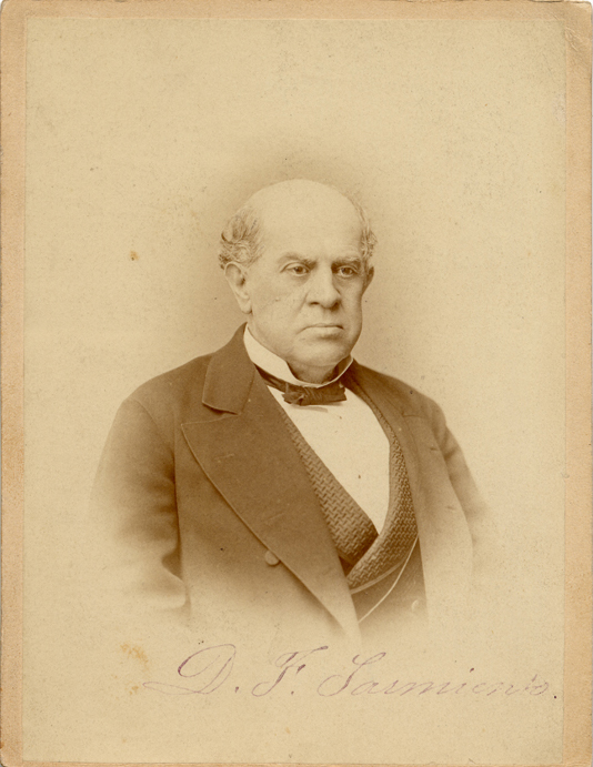 Former President of Argentina, Domingo F. Sarmiento. He was a teacher, politician, writer, journalist and militar.